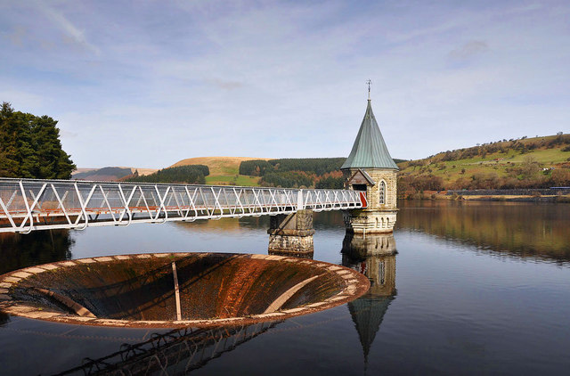 Pontsticill Reservoir and the outflow To see the outflow in action then head to 931782.